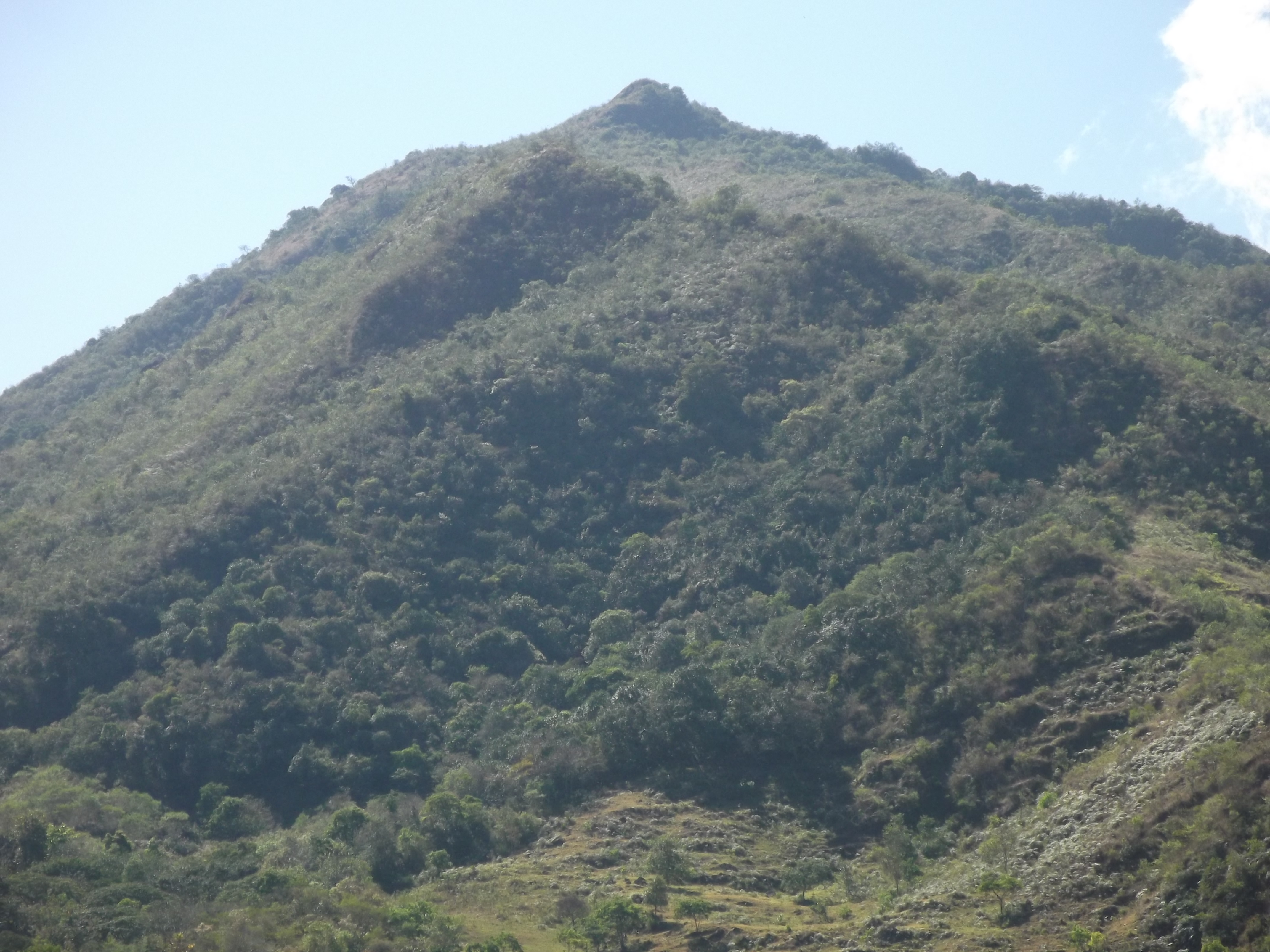 Montaña La Purga